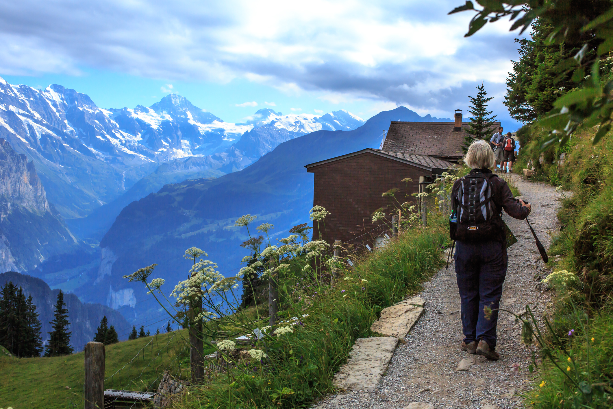 Schynige Platte Botanischer Alpengarten...looking down into the Lauterbrunnen Valley